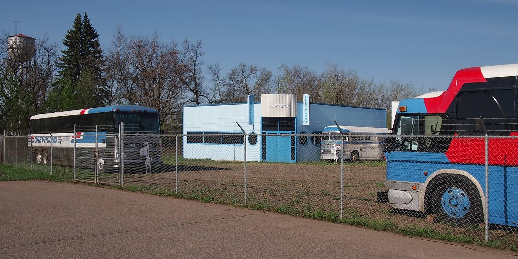 Part of the bus collection at the Greyhound Bus Museum, 1201 Greyhound Boulevard, Hibbing, Minnesota, USA. Viewed from the northeast.